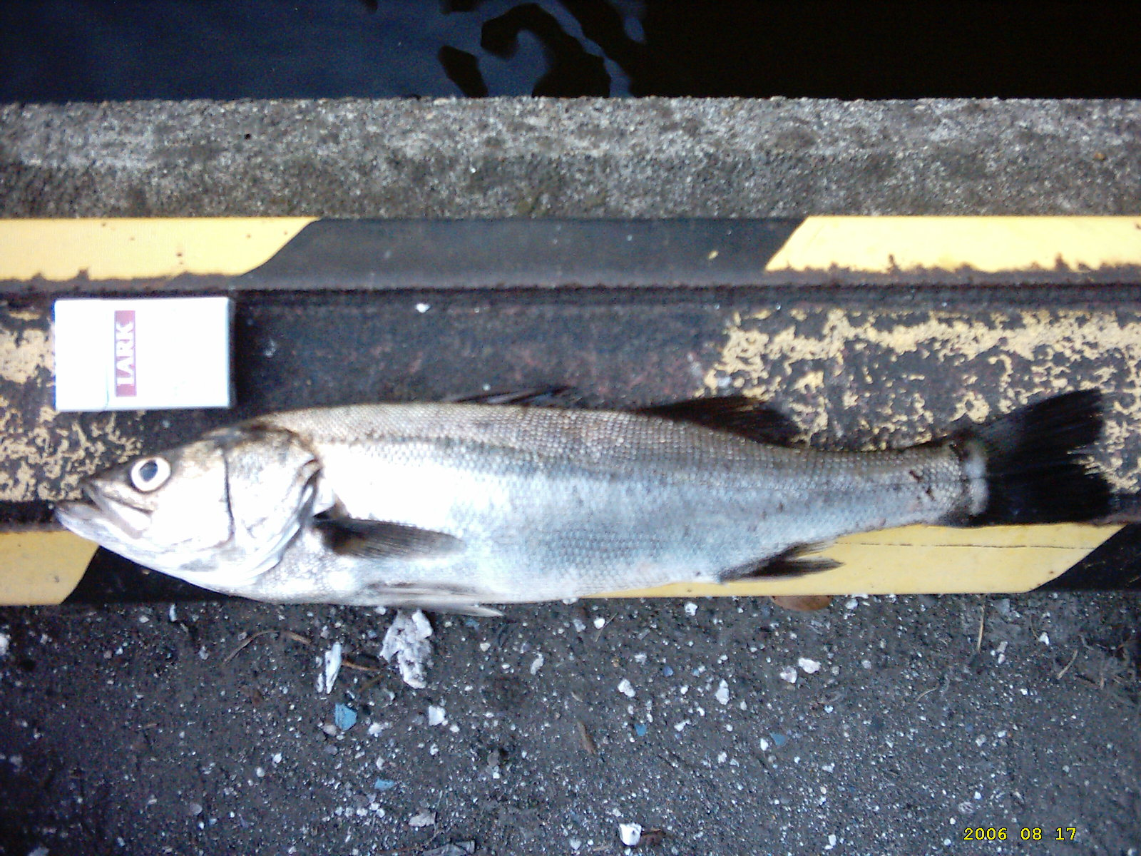 species: Lateolabrax japonicus variety: Japanese seabass Caught at the Nagoya Port in Japan. 575mm Date: Aug. 17, 2006(JST) Caught & Photo by Vineyard user:OAS